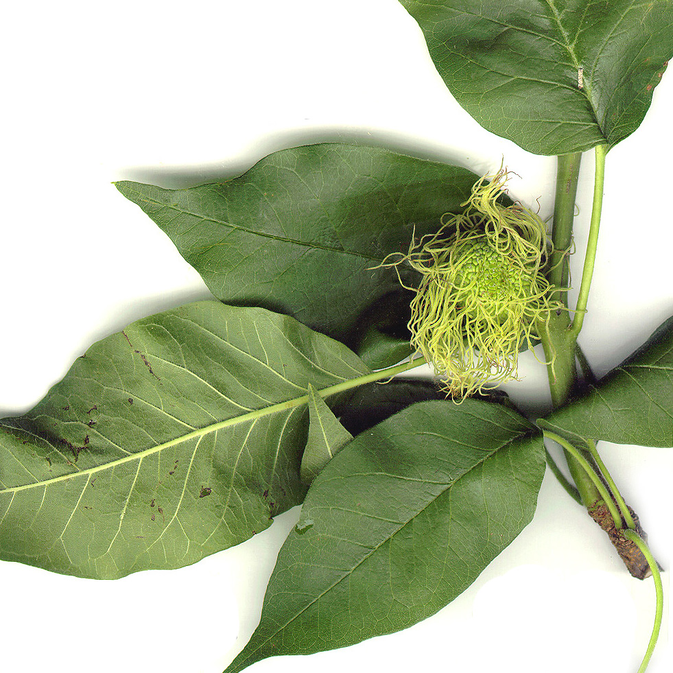 Maclura pomifera female inflorescence